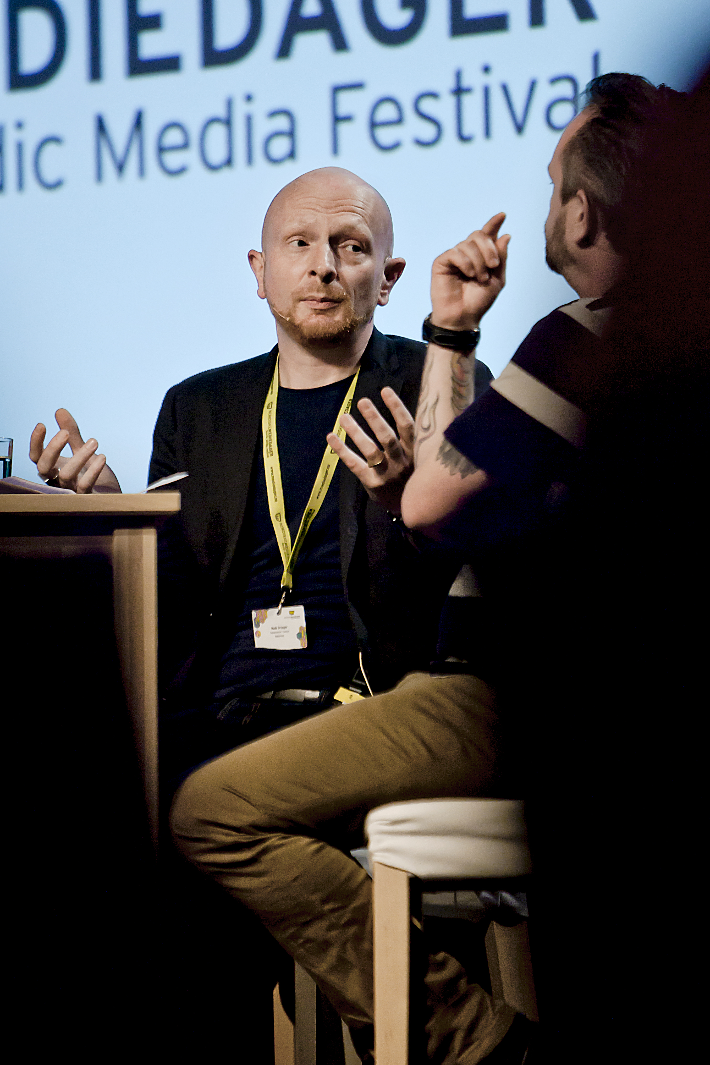 Foto: Jarle H. Moe